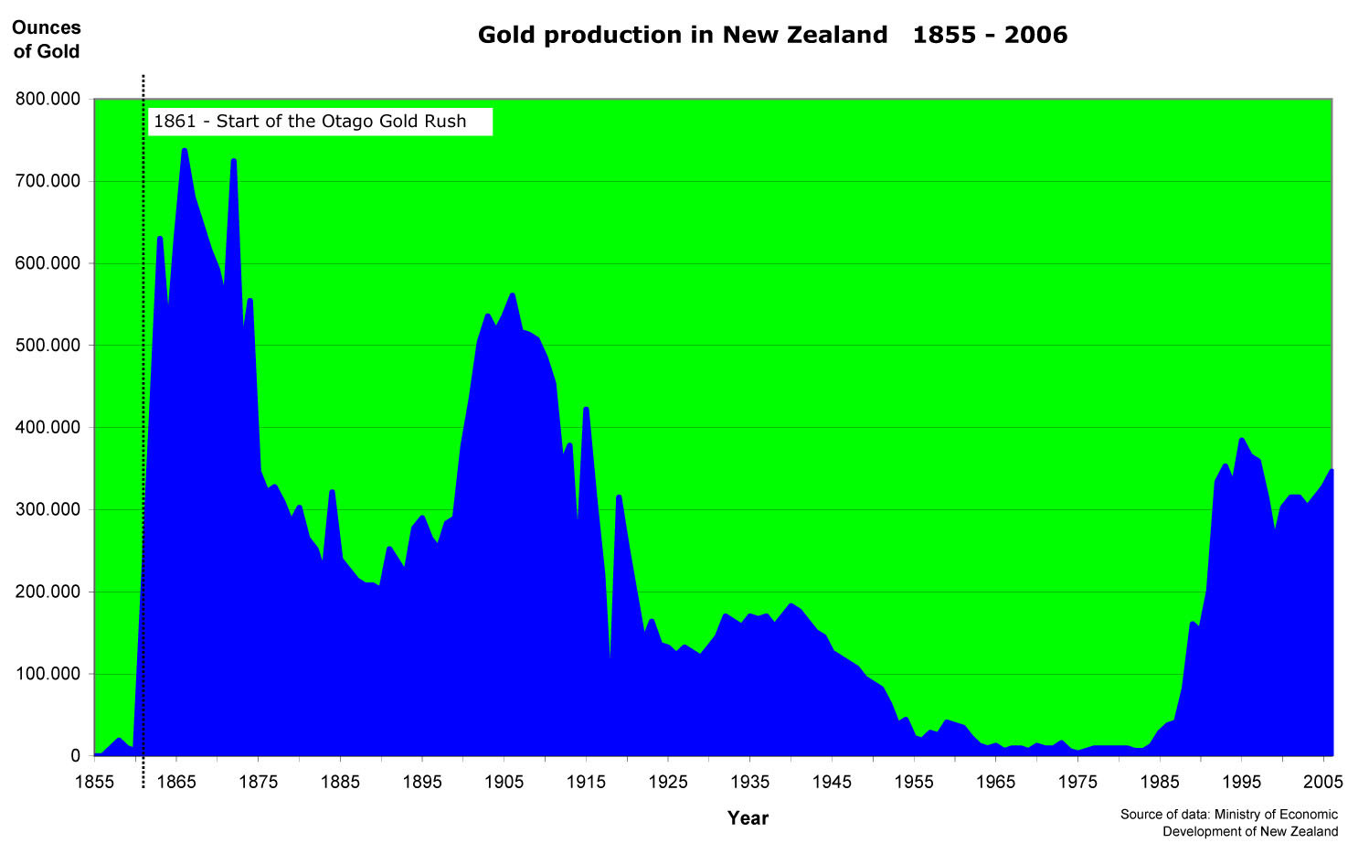 Gold production in New Zealand, 1855 - 2006.